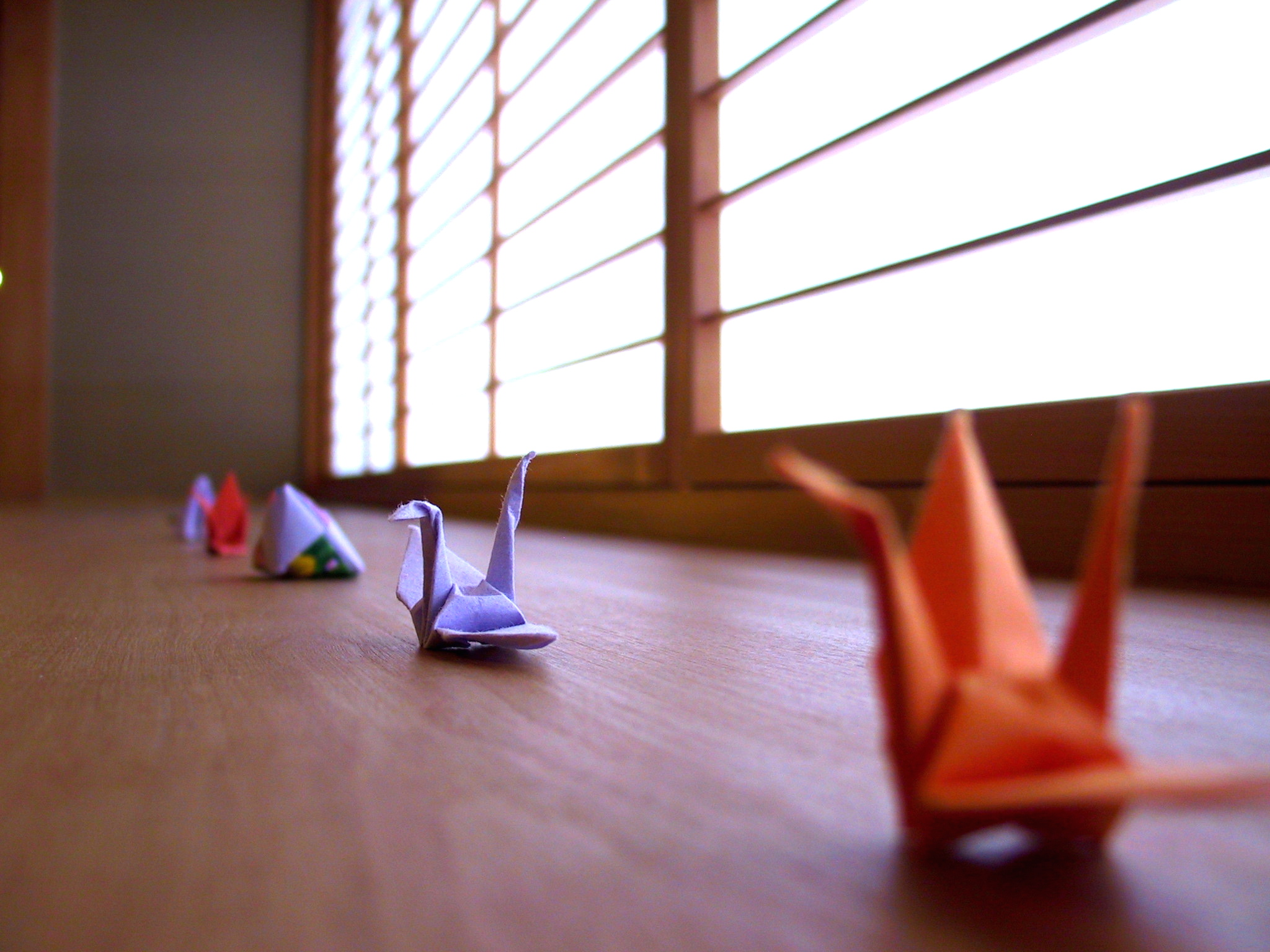 origami: this is a crane.